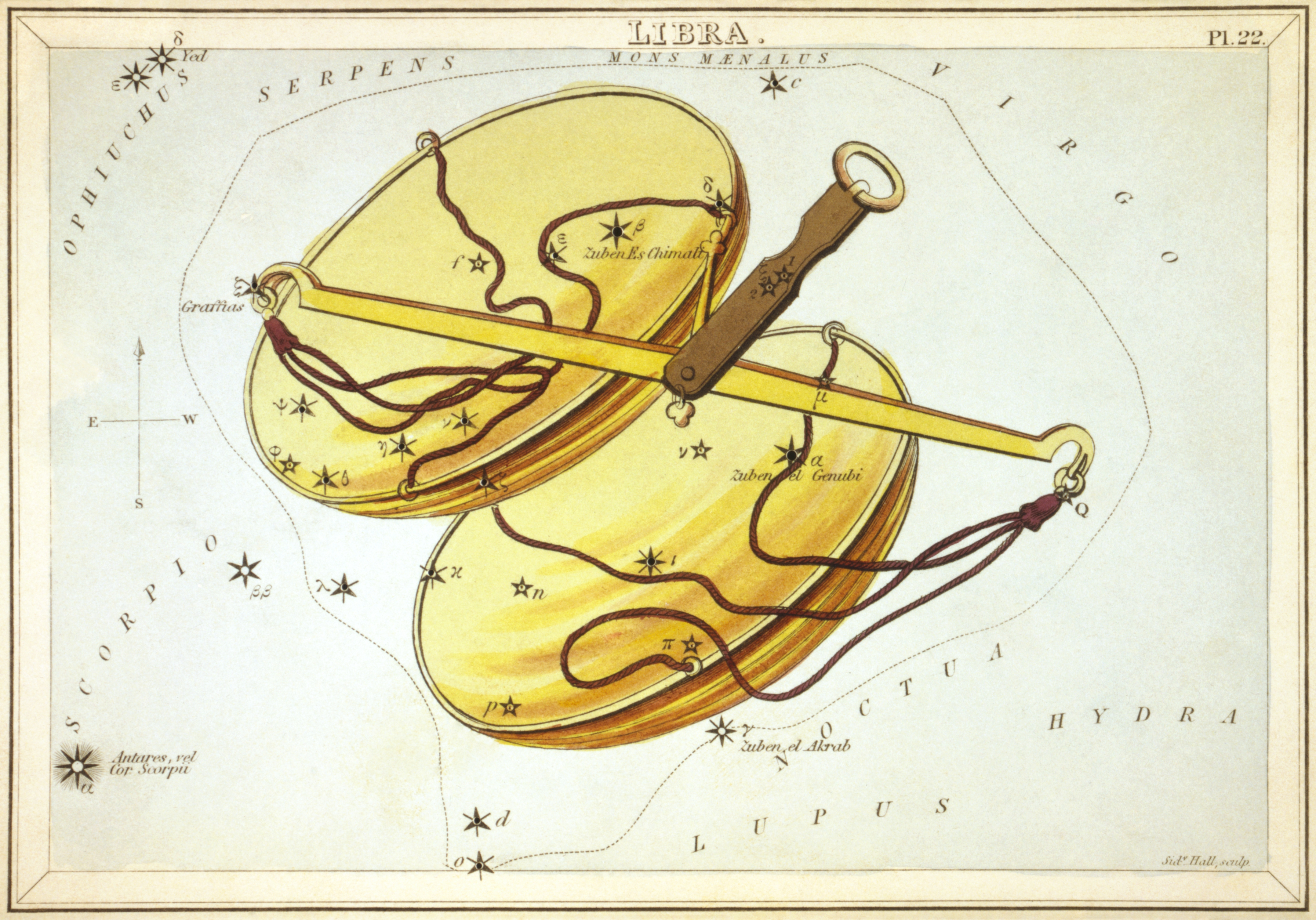 "Libra", plate 22 in Urania's Mirror, a set of celestial cards accompanied by A familiar treatise on astronomy ... by Jehoshaphat Aspin. London. Astronomical chart, 1 print on layered paper board : etching, hand-colored.